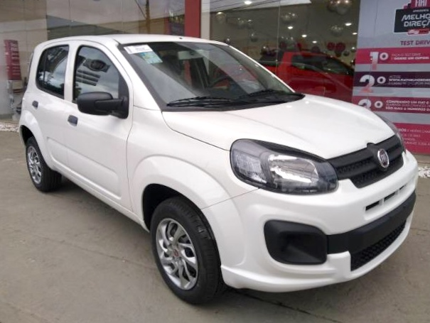 The Fiat Uno 1.0 Firefly 6V Flex in Betim